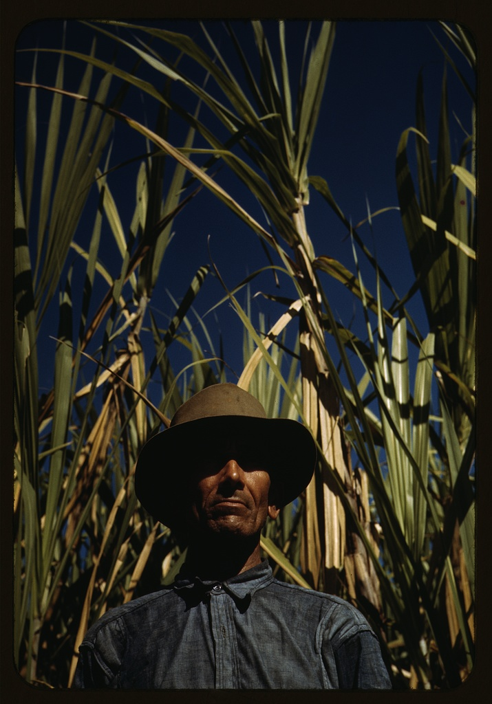 Title: FSA borrower who is a member of a sugar cooperative, vicinity of Rio Piedras, Puerto Rico